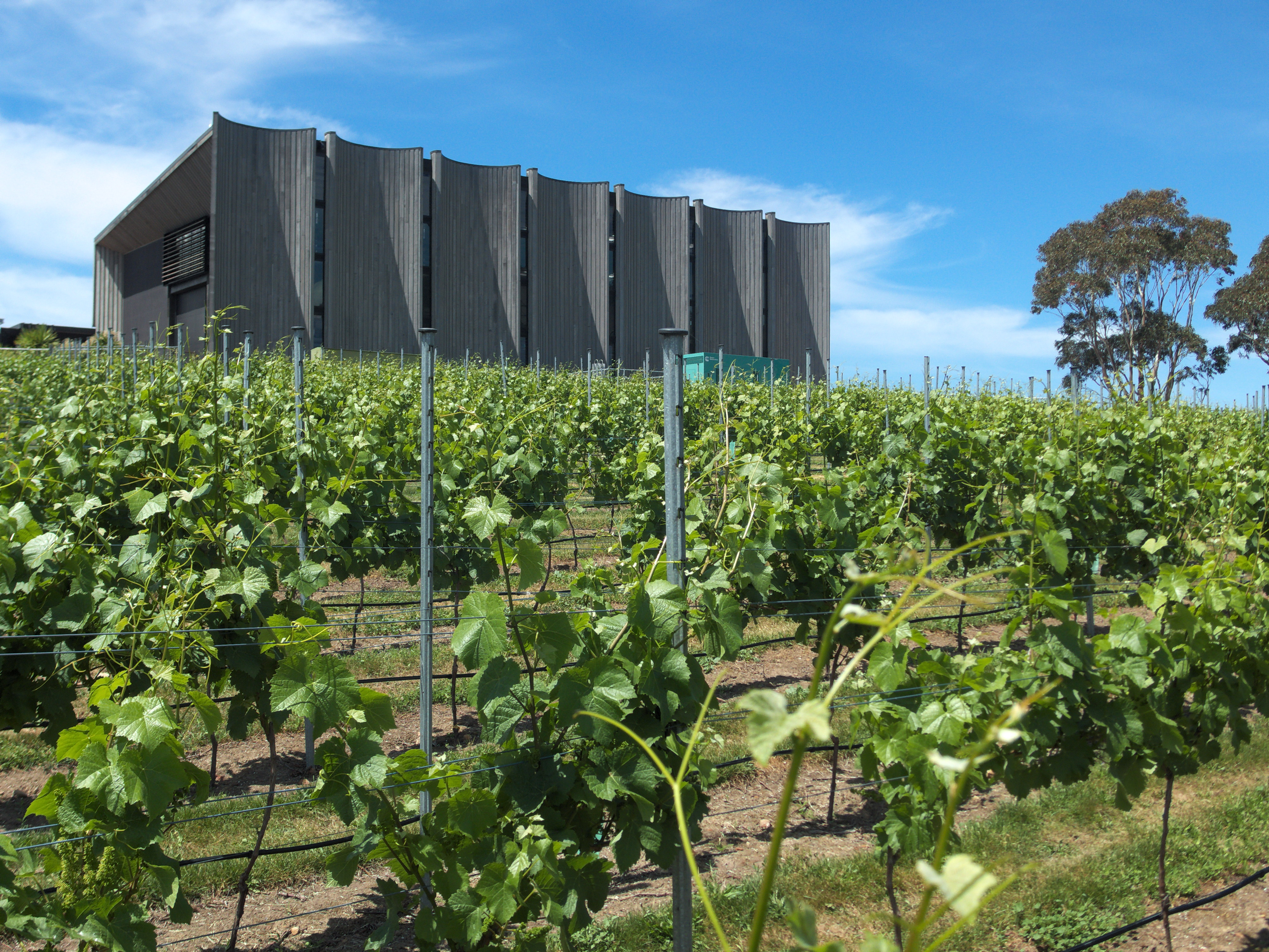 Moorilla vineyard at MONA. The building may be a hotel or part of the restaurant.